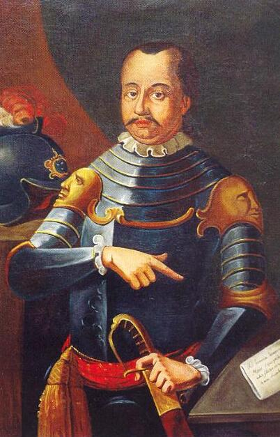 Fictitious image of Ulrich II. of Cilli, painted around 1700. Oil on canvas. 110x 68,5 cm, no signature, Zagreb- Hrvatski povijesni muzej.